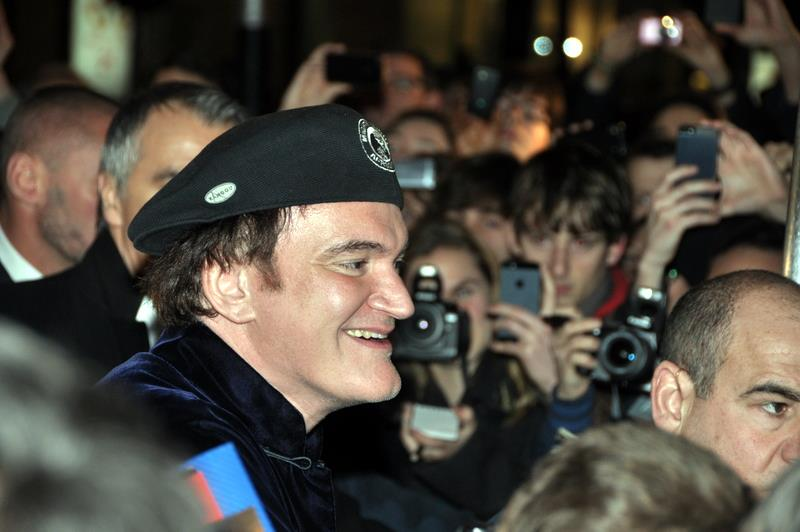 Quentin Tarantino in Paris at the French premiere of "Django unchained"